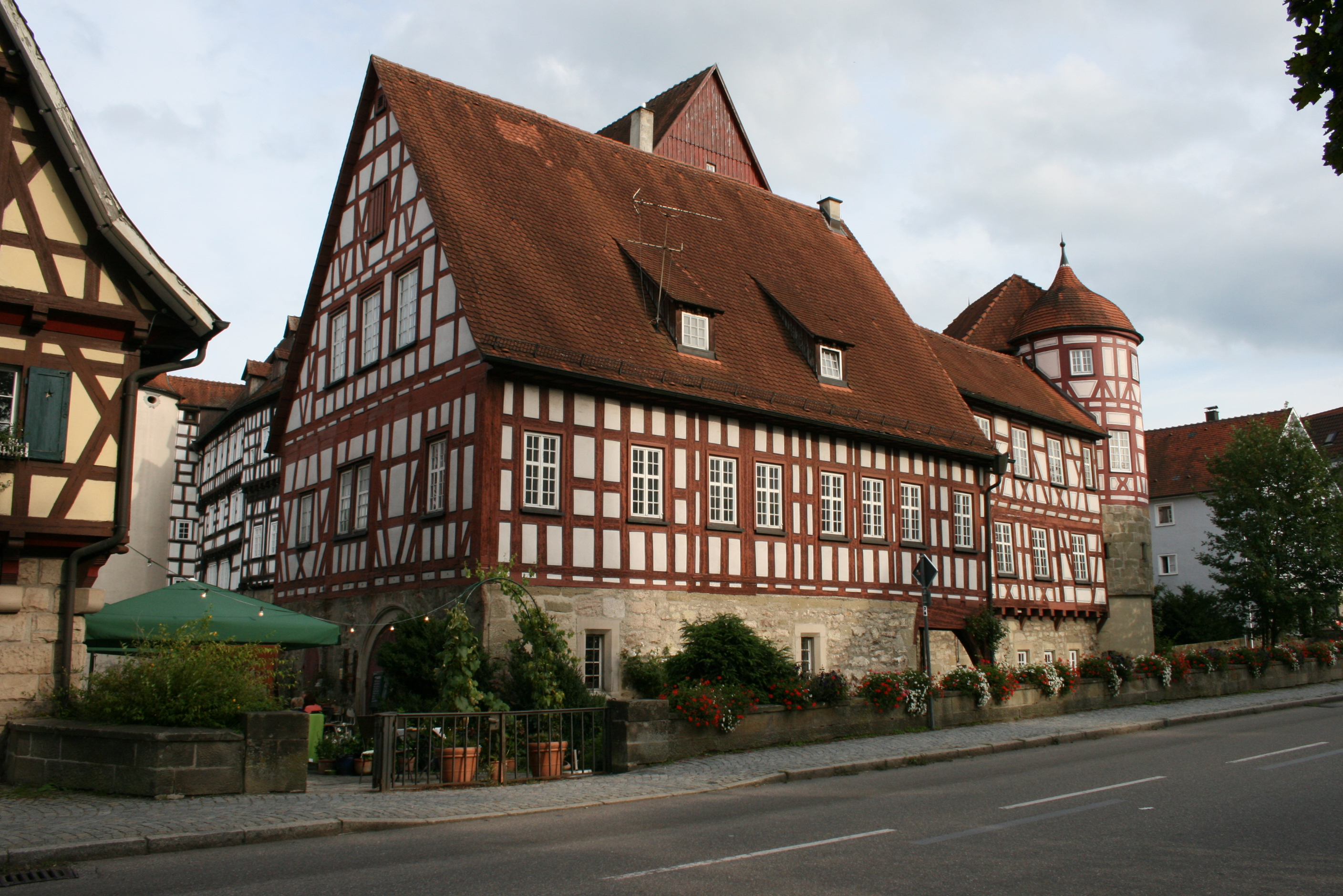 Gaildorf, Old Castle